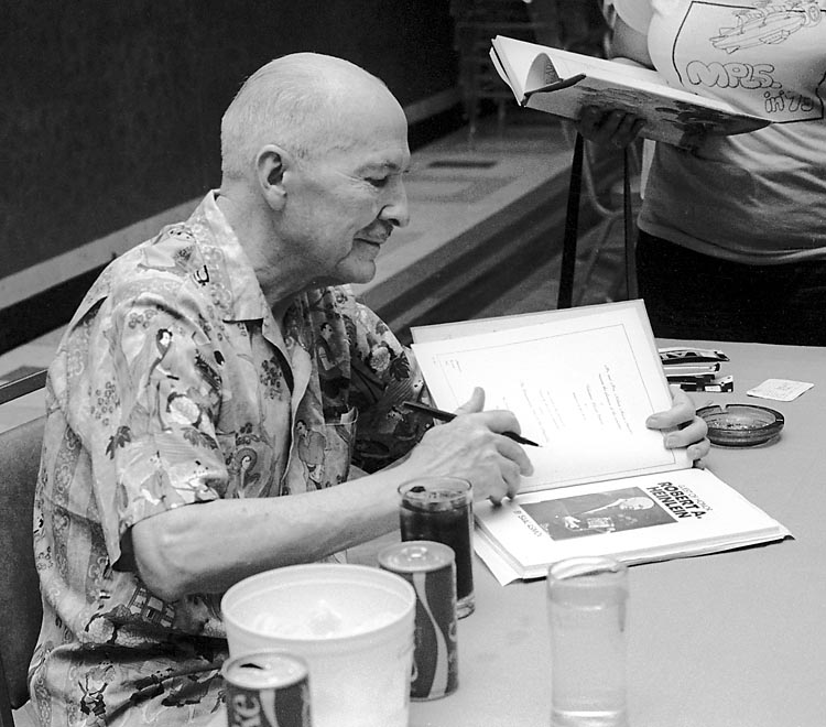 Robert A. Heinlein autographing at the 1976 Worldcon (Midmericon) Photo by Dd-b, taken at the 1976 World Science Fiction Convention in Kansas City MO USA, at which Heinlein was the guest of honor. This larger image was uploaded, rather belatedly, at the request of User:grendelkhan A cropped version of this image is available at Image:Heinlein-face.jpg.